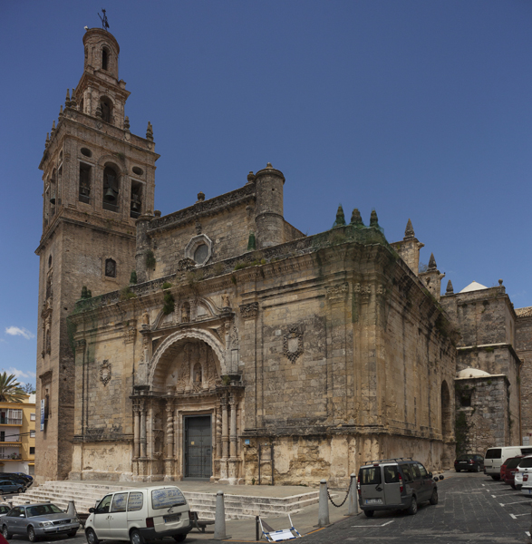 Ref: PM_100558_E_Moron_de_la_Frontera.jpg; Morón de la Frontera; San Miquel Arcangel; Andalucía, Sevilla; Spain; Cultural heritage; Europe/Spain/Morón de la Frontera; photo: Paul M.R.Maeyaert; © Paul M.R. Maeyaert